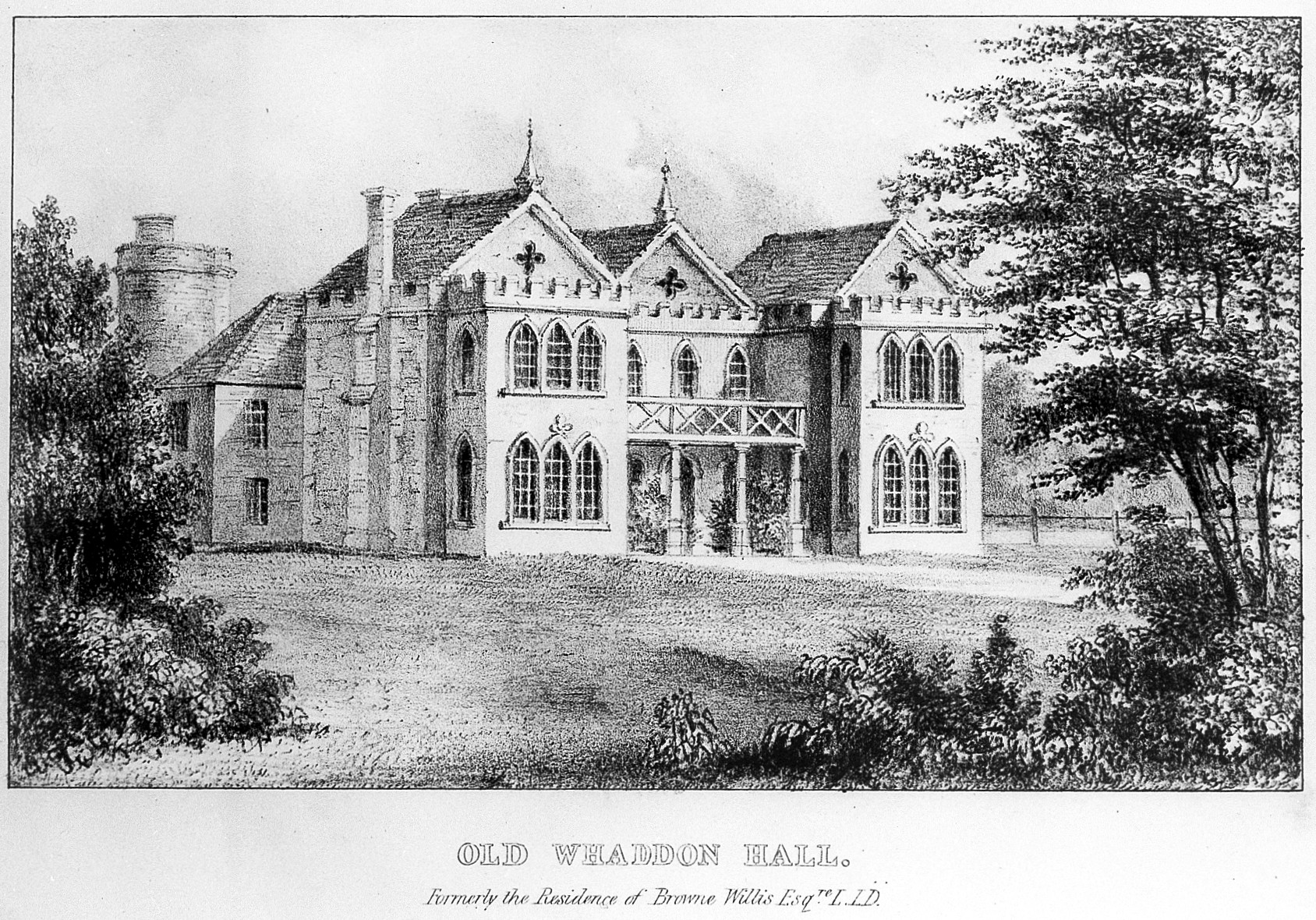 Old Whaddon Hall, Bucks., seat of Browne Willis, grandson of Thomas Willis. Wellcome Images Keywords: Thomas Willis